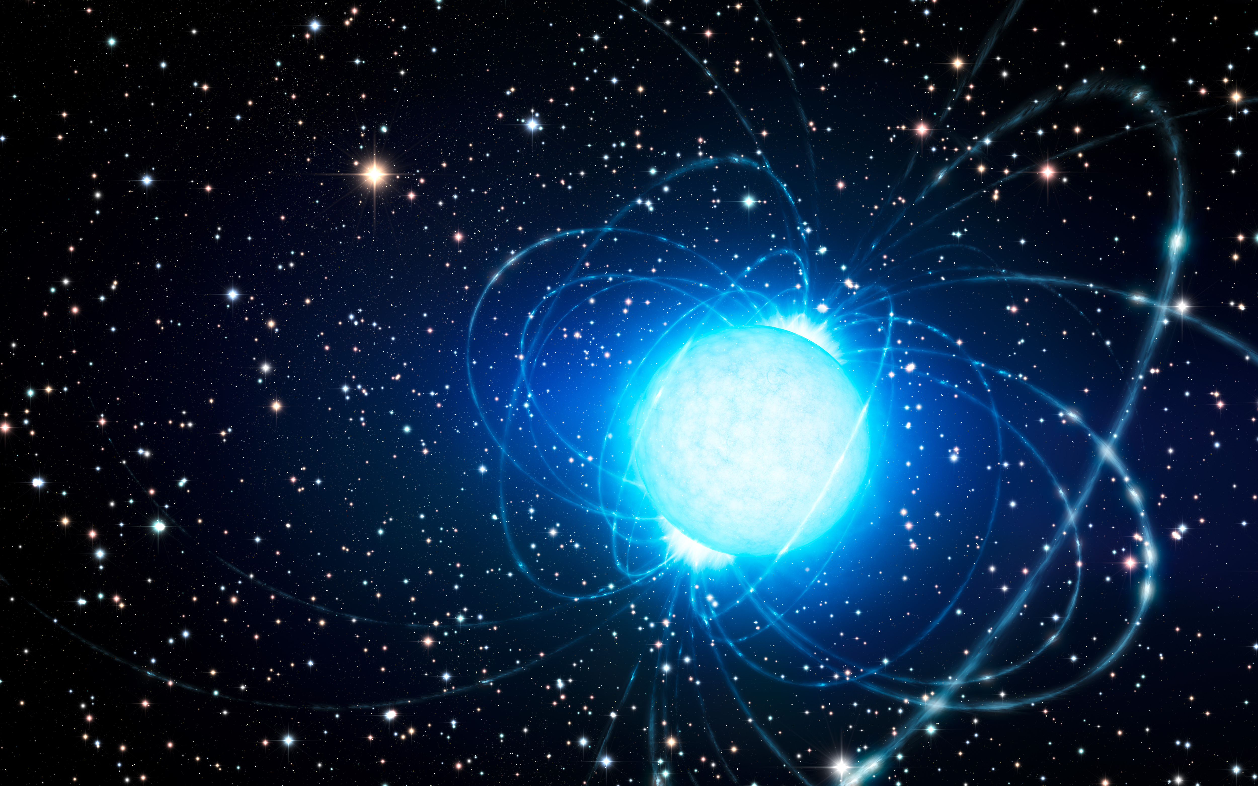 This artist’s impression shows the magnetar in the very rich and young star cluster Westerlund 1. This remarkable cluster contains hundreds of very massive stars, some shining with a brilliance of almost one million suns. European astronomers have for the first time demonstrated that this magnetar — an unusual type of neutron star with an extremely strong magnetic field — probably was formed as part of a binary star system. The discovery of the magnetar’s former companion elsewhere in the cluster helps solve the mystery of how a star that started off so massive could become a magnetar, rather than collapse into a black hole.